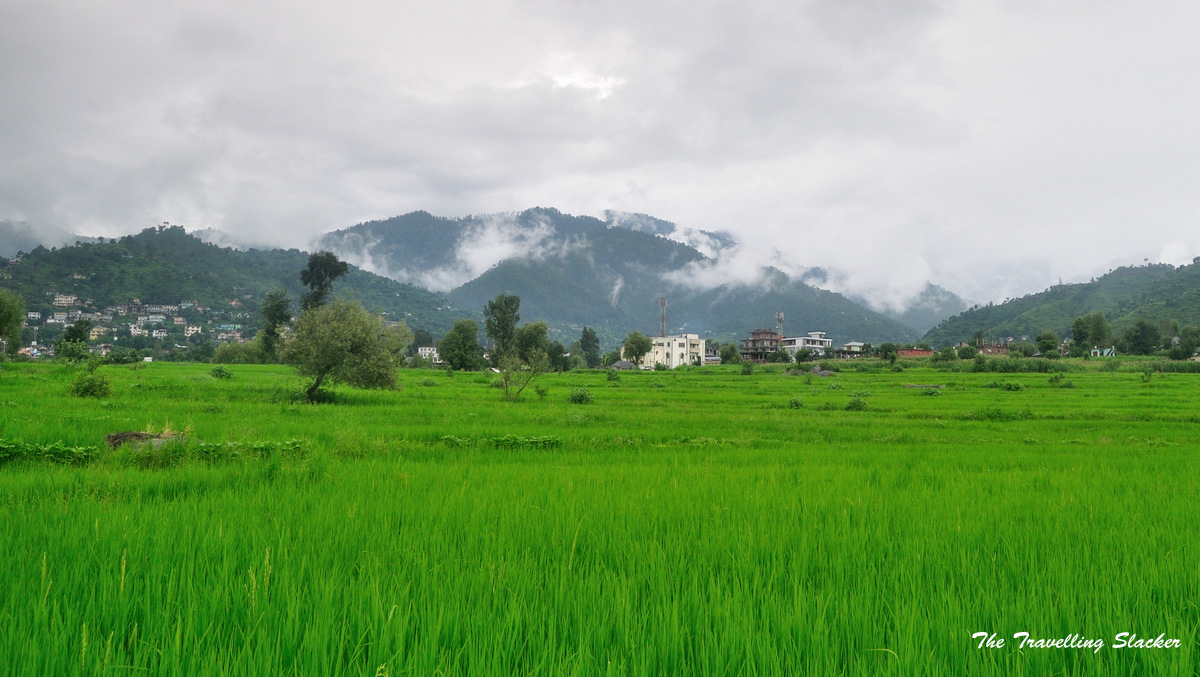 Nature, Scenery, Forests, Agriculture Between Shimla and Mandi Himachal Pradesh India